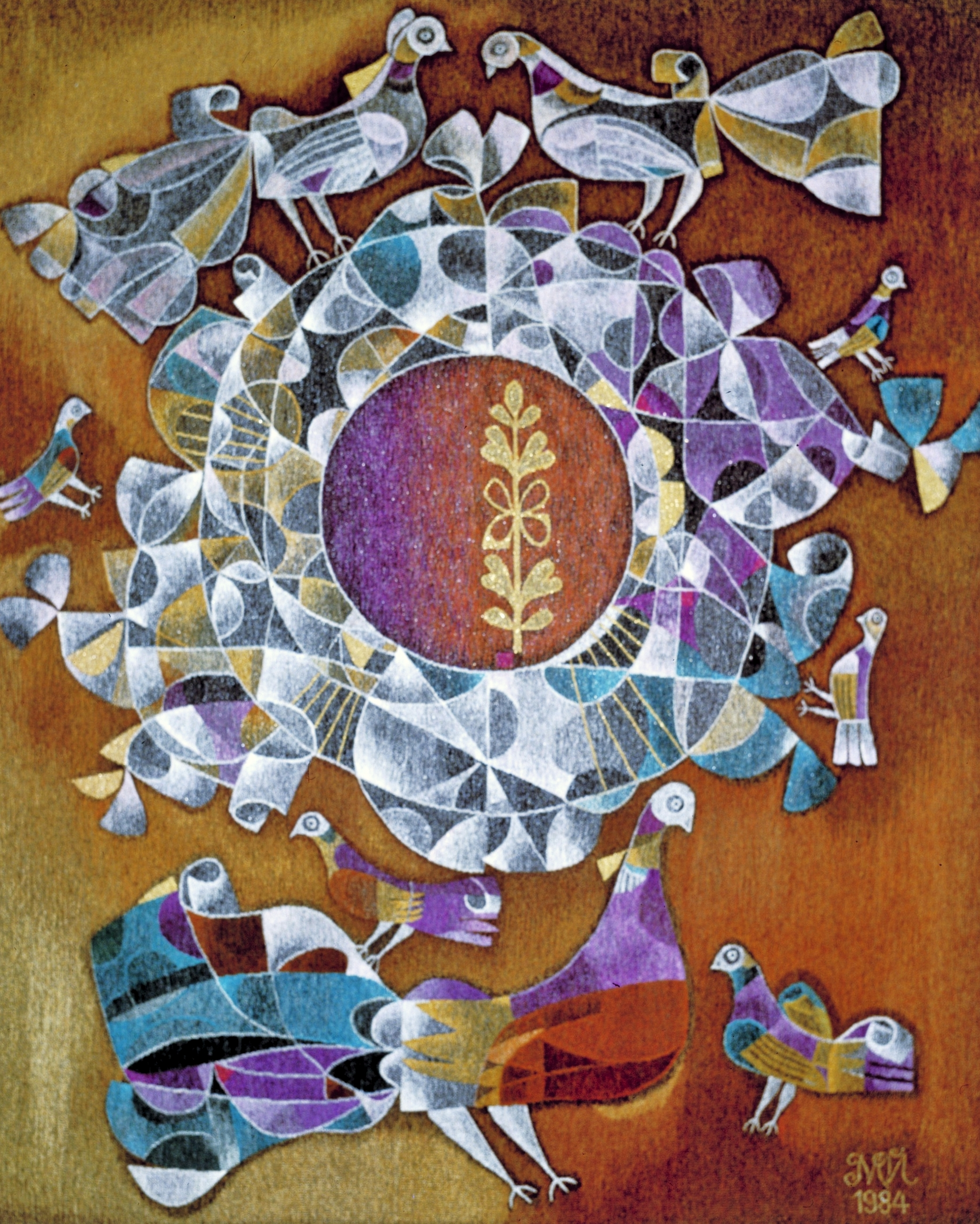 Mara Josifova, Bird and sun, wall carpet, 265cm/200cm, 1989